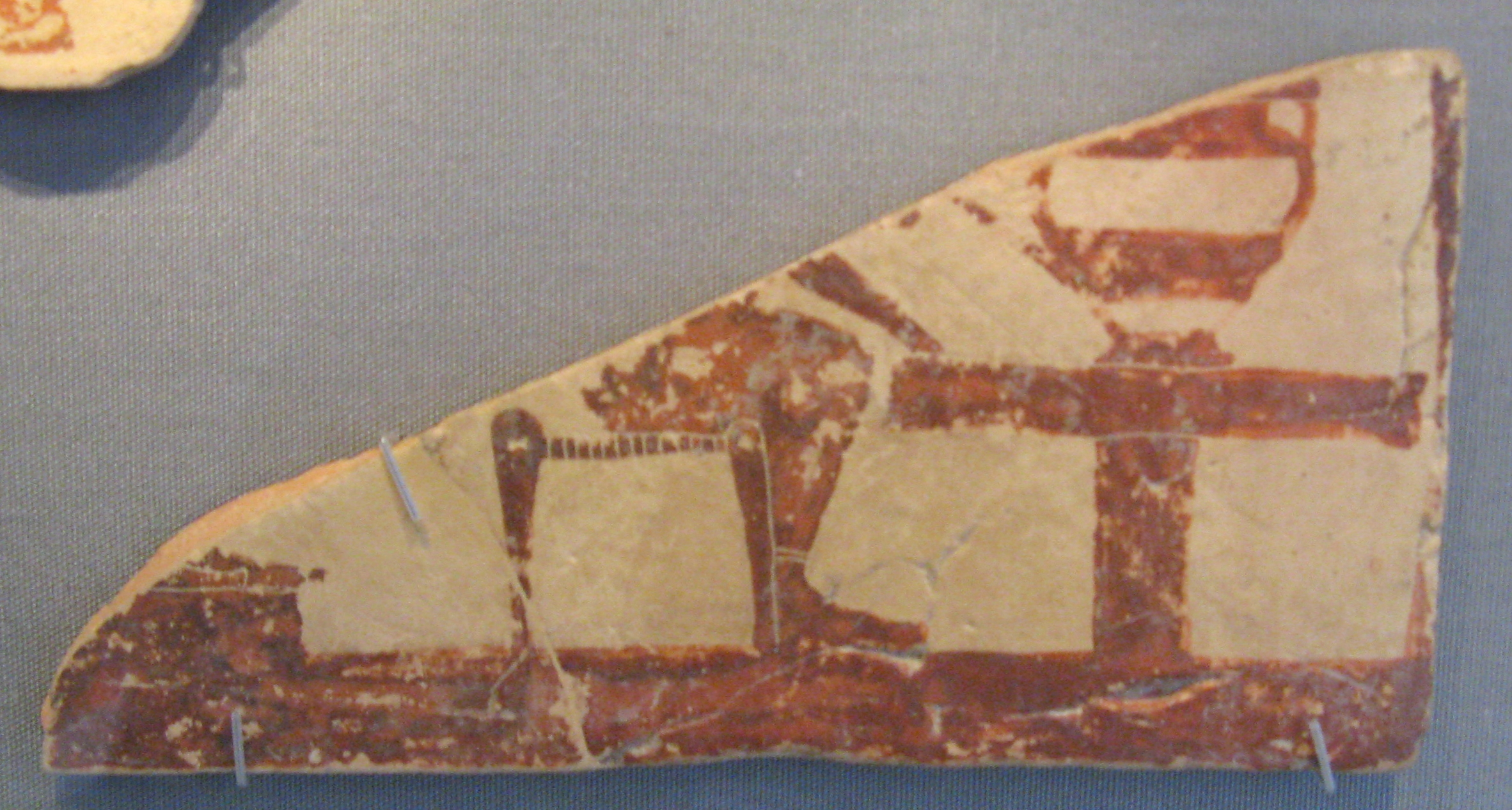 Making Ceramics, Corinthian plaque, 575–550 BC. From Penteskouphia, now Antikensammlung Berlin/Altes Museum